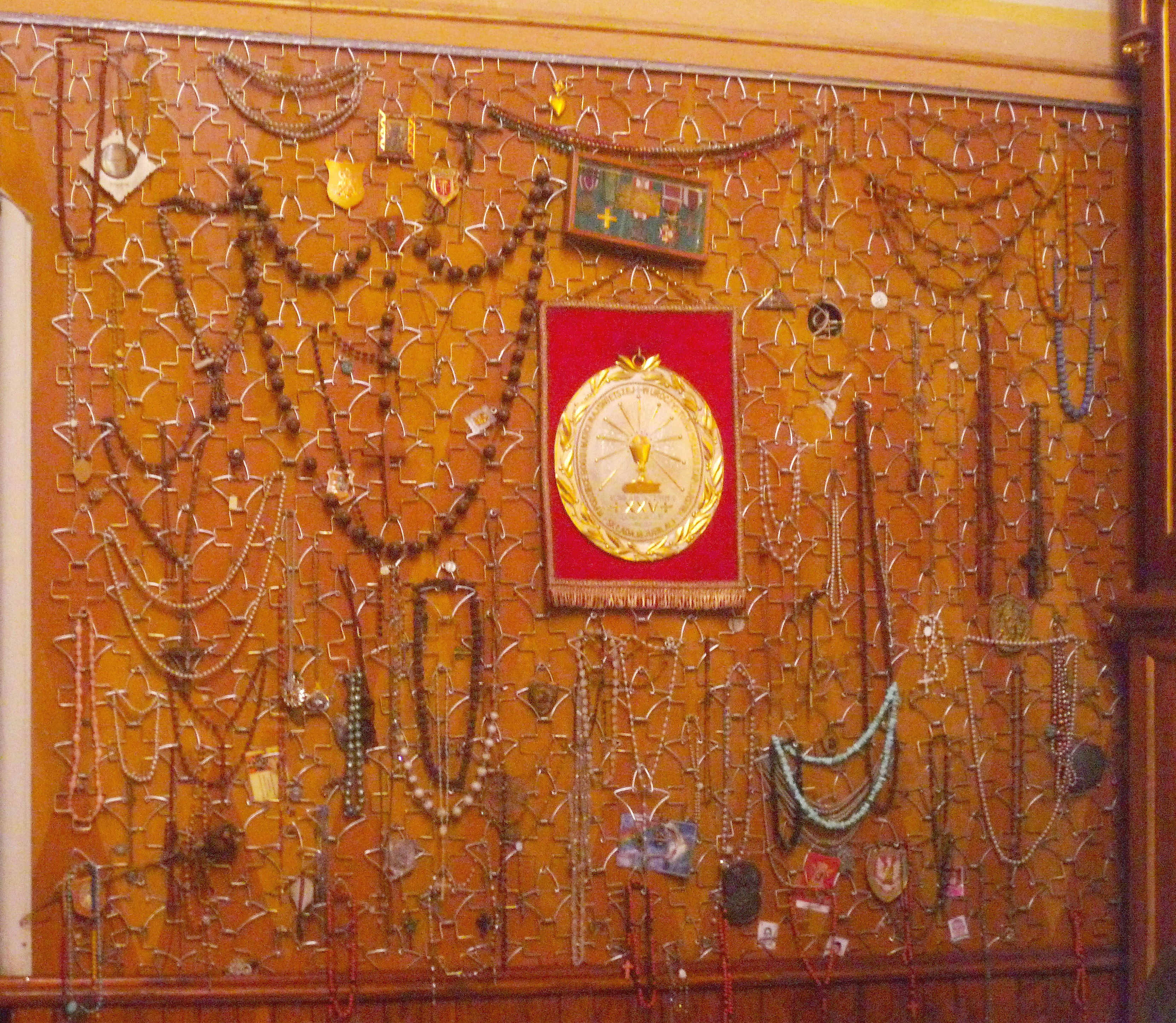 Votive offerings in the parish church of St. Michael Archangel in Płonka Kościelna, Poland